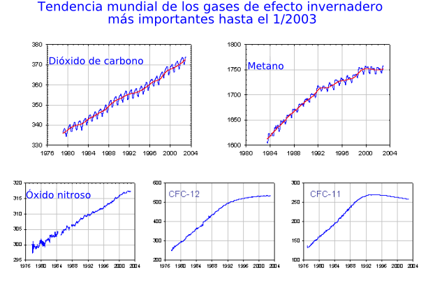 Description: This image is a work of the National Oceanic and Atmospheric Administration, taken or made during the course of an employee's official duties. As works of the U.S. federal government, all NOAA images are in the public domain. Source: NOAA ( by way of Wikipedia Date: Uploaded to Wikipedia March 17, 2005 Author: US Govt Permission: Public domain Other versions of this file: none known to me